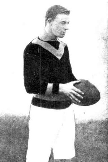 Photograph of Bert Hartkopf from the 1910 Weekly Times Victorian Footballer Postcard Series